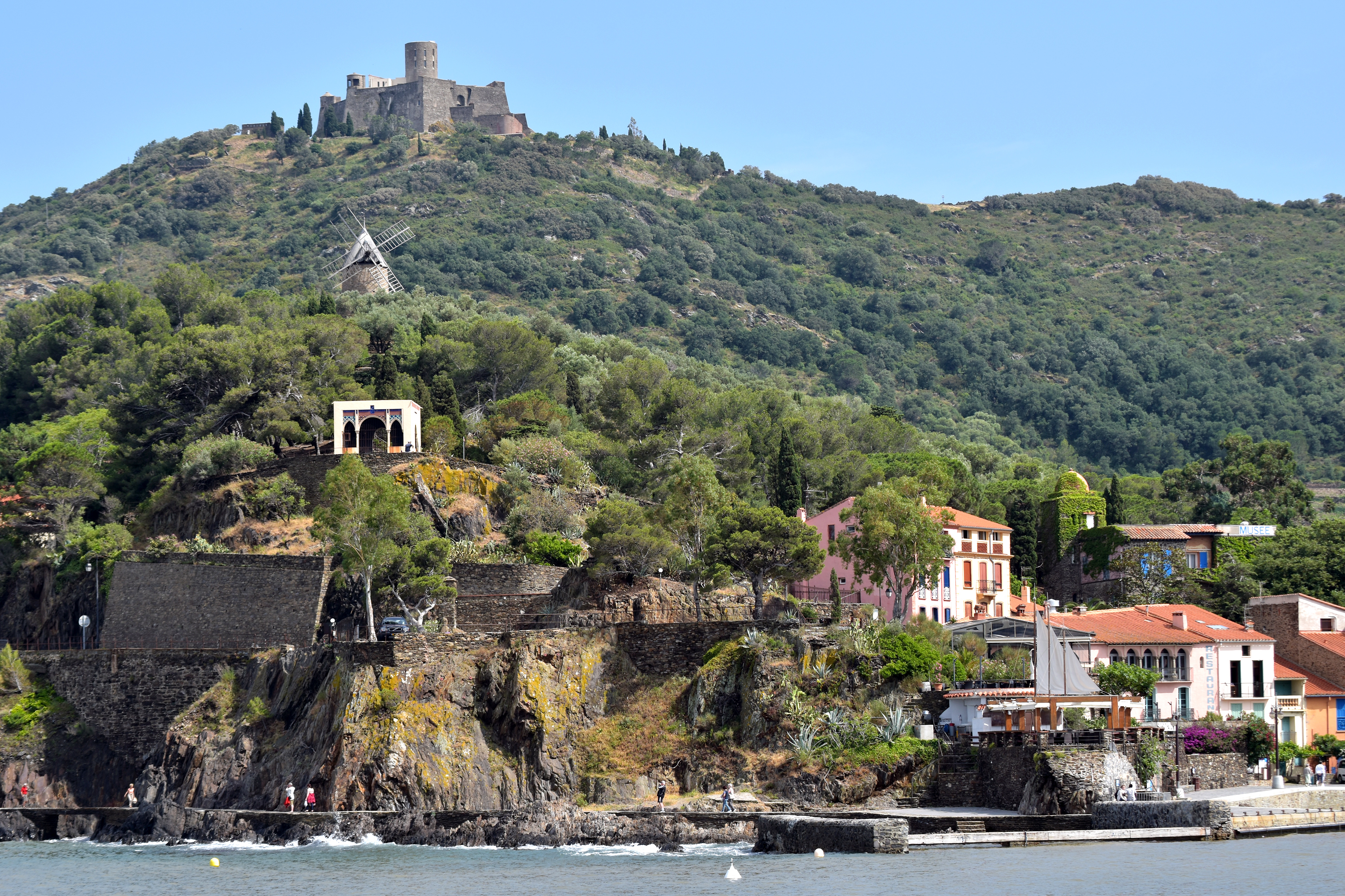 Collioure, Fort Saint-Elme